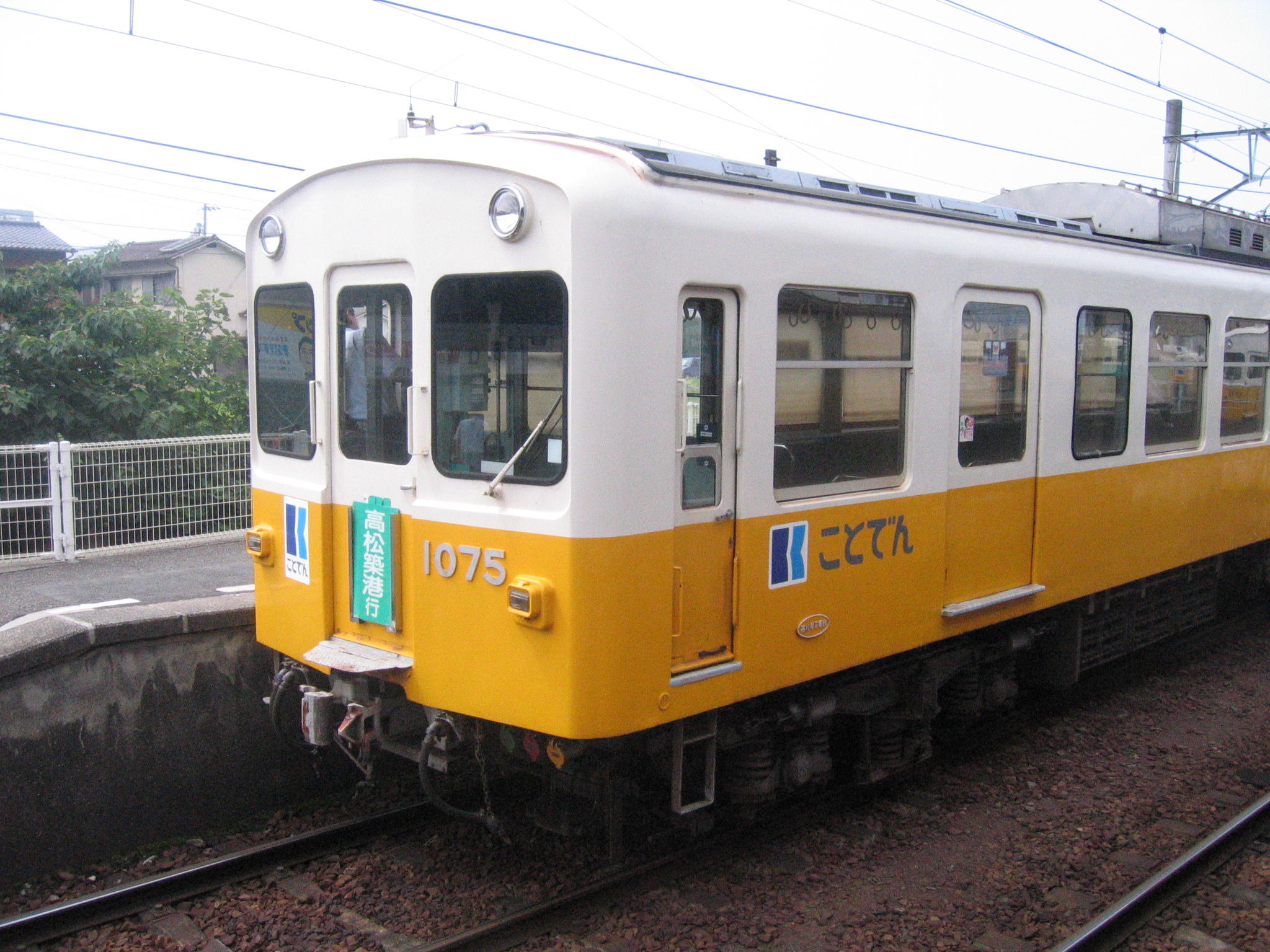 Kotoden 1070 series